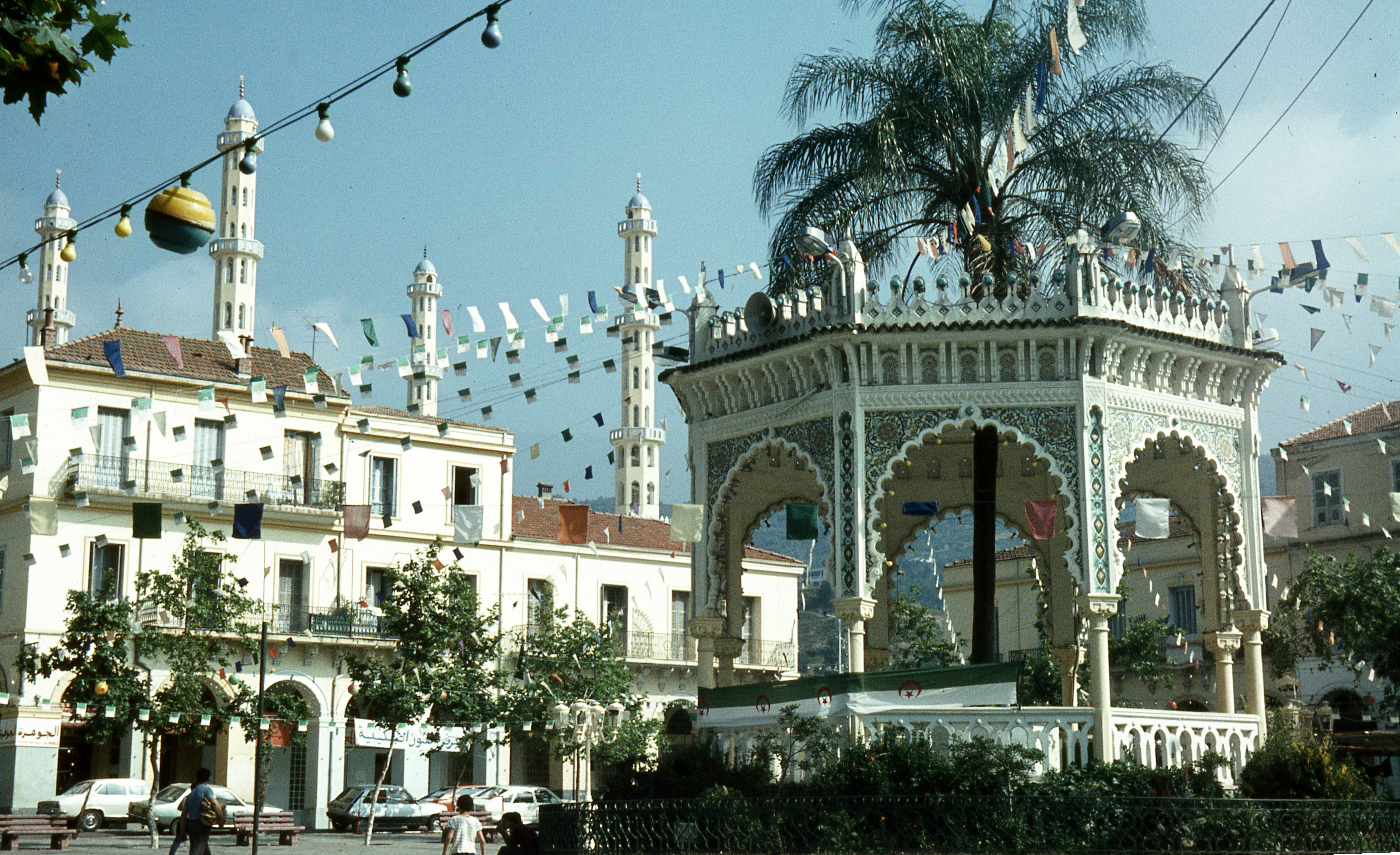 Downtown of Blida (Algeria), November 1st plaza.